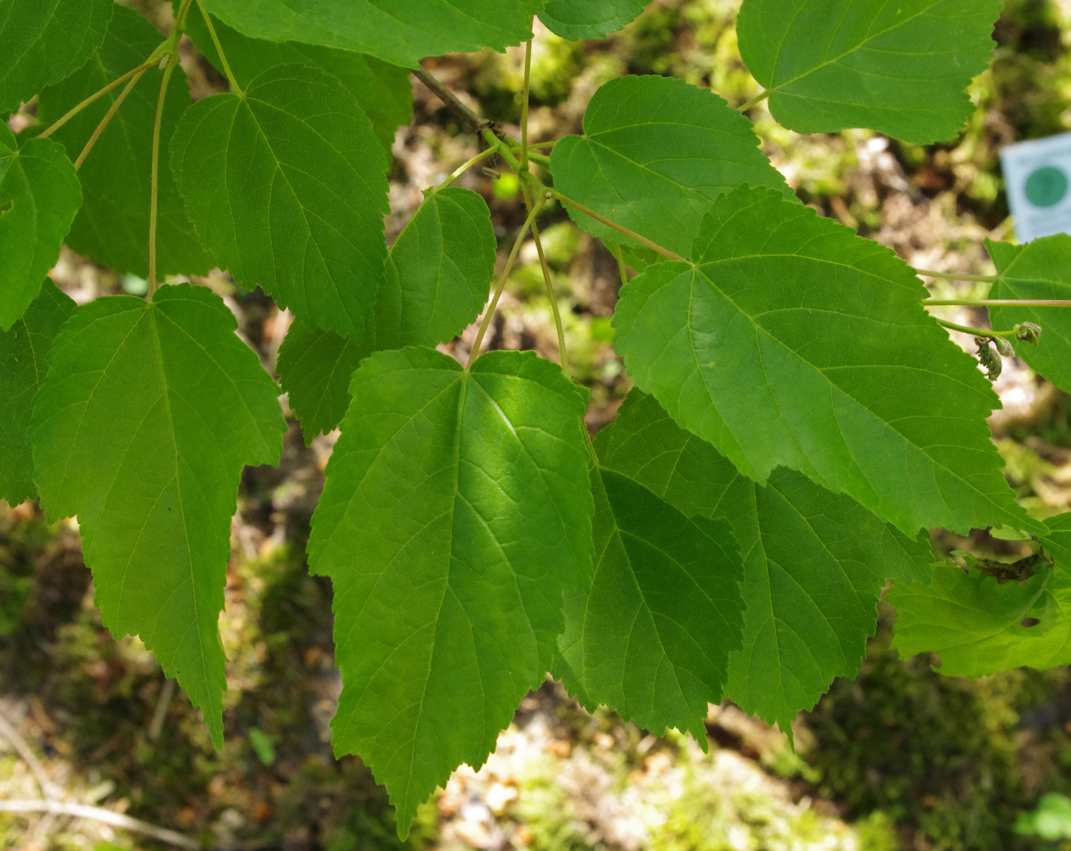 Acer tetramerum (syn. Acer stachyophyllum) at the ÖBG Bayreuth